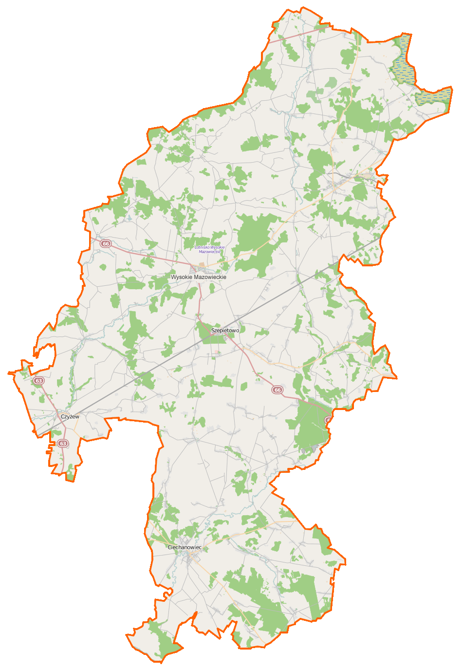 Map of Powiat wysokomazowiecki, Poland This map of Powiat wysokomazowiecki was created from OpenStreetMap project data, collected by the community. This map may be incomplete, and may contain errors. Don't rely solely on it for navigation.